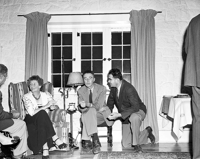 Isidor Isaac Rabi, Dorothy McKinnon, Robert Oppenheimer and Victor Weisskopf at Oppenheimer's home in 1944